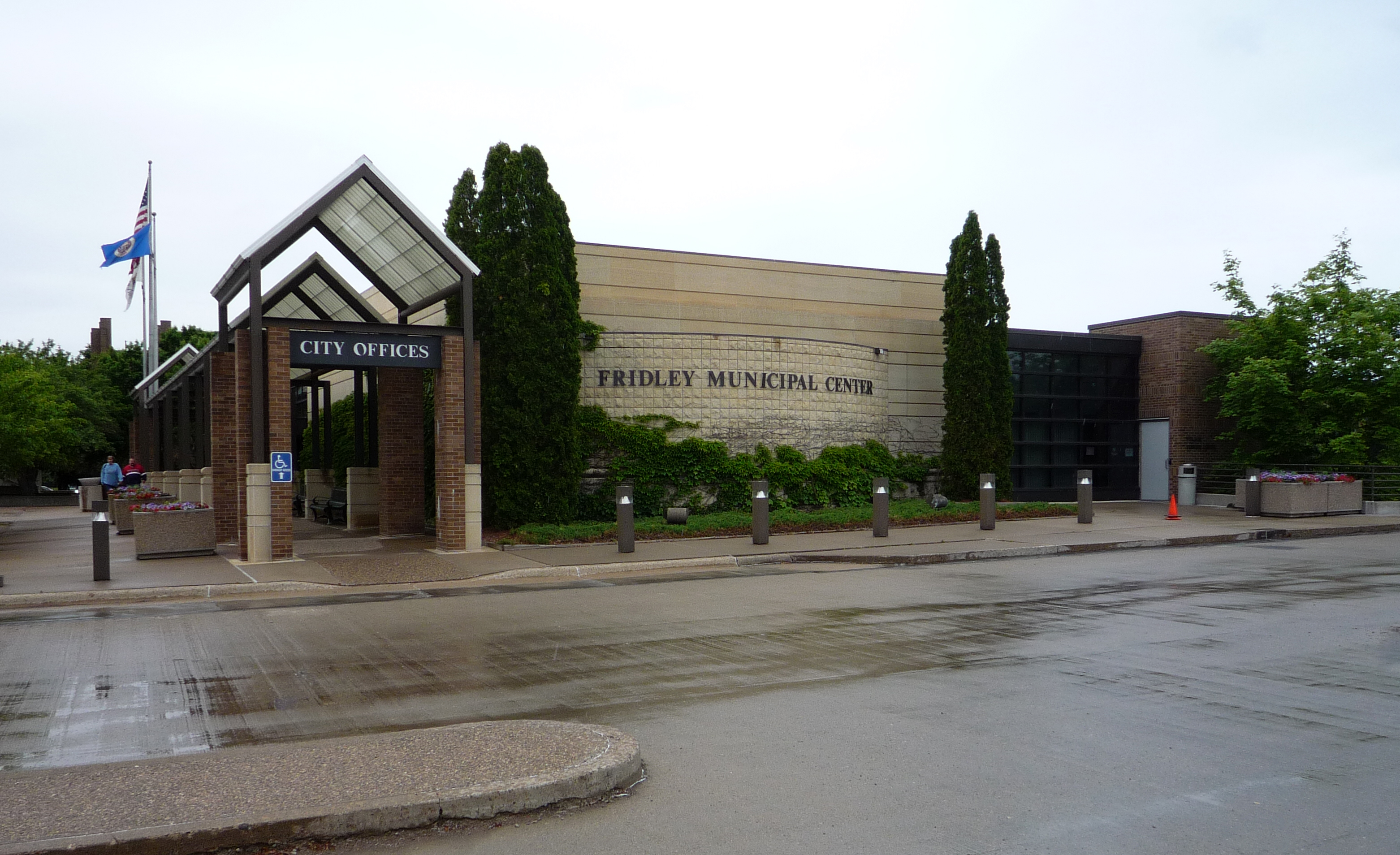 City Offices (and city hall), Fridley, Minnesota, USA.